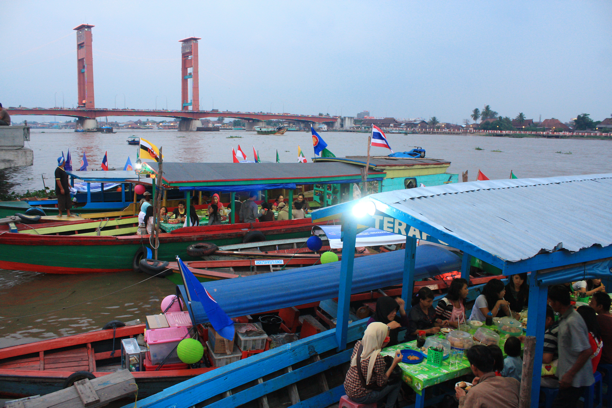 The floating Warung (food stall) on Musi river by the Ampera Bridge decorated with flags of Southeast Asian Nations during SEA Games 2011. The bridge crossing Musi River is a major landmark in Palembang, Indonesia. It was constructed in 1962-1965.